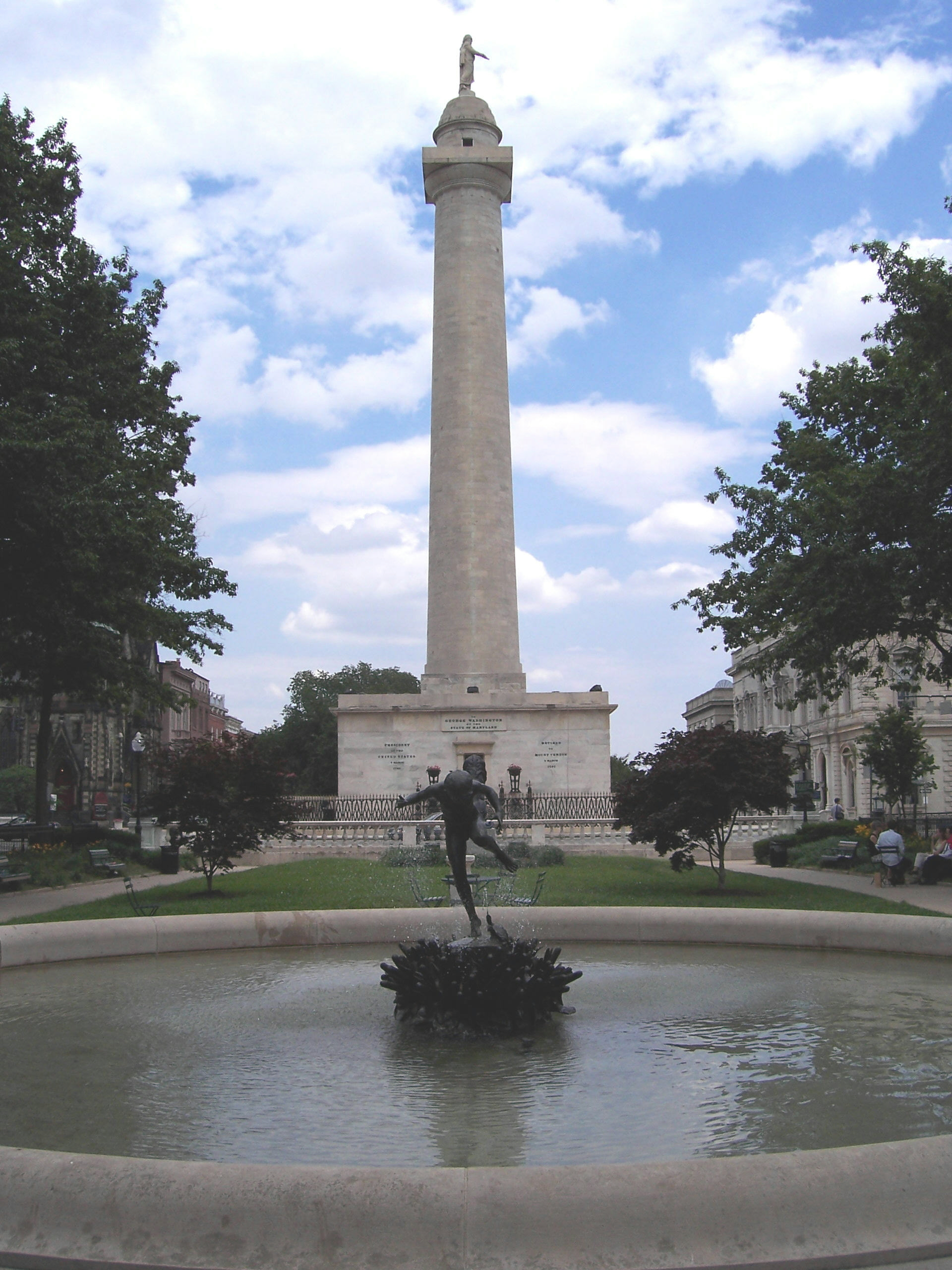 Depicted place: Washington Monument